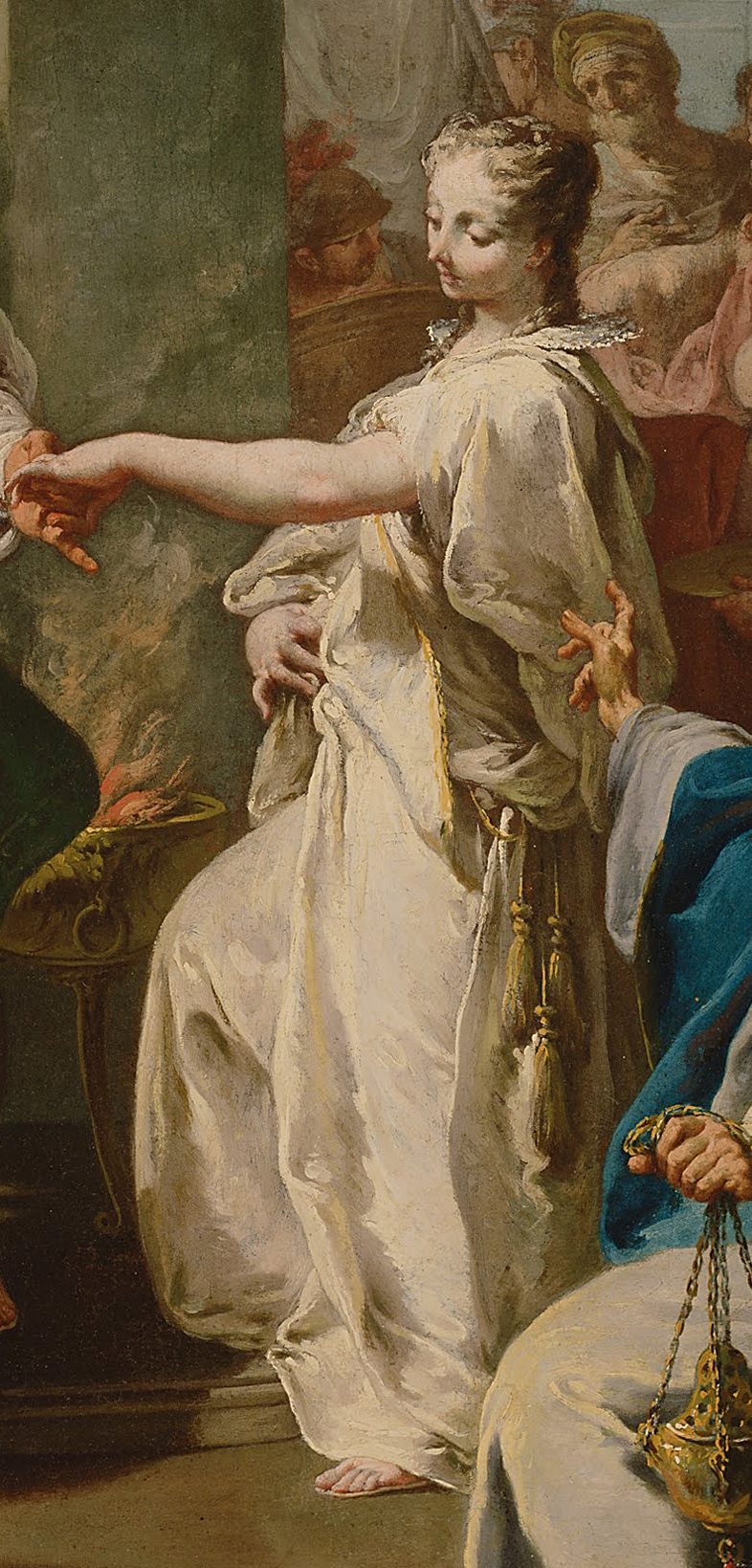 Detail